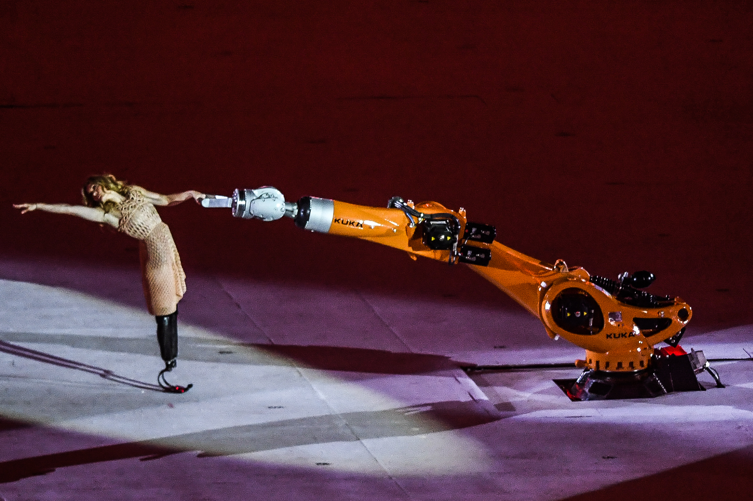 2016 Summer Paralympics opening ceremony, Amy Purdy dancing with a robot, ...